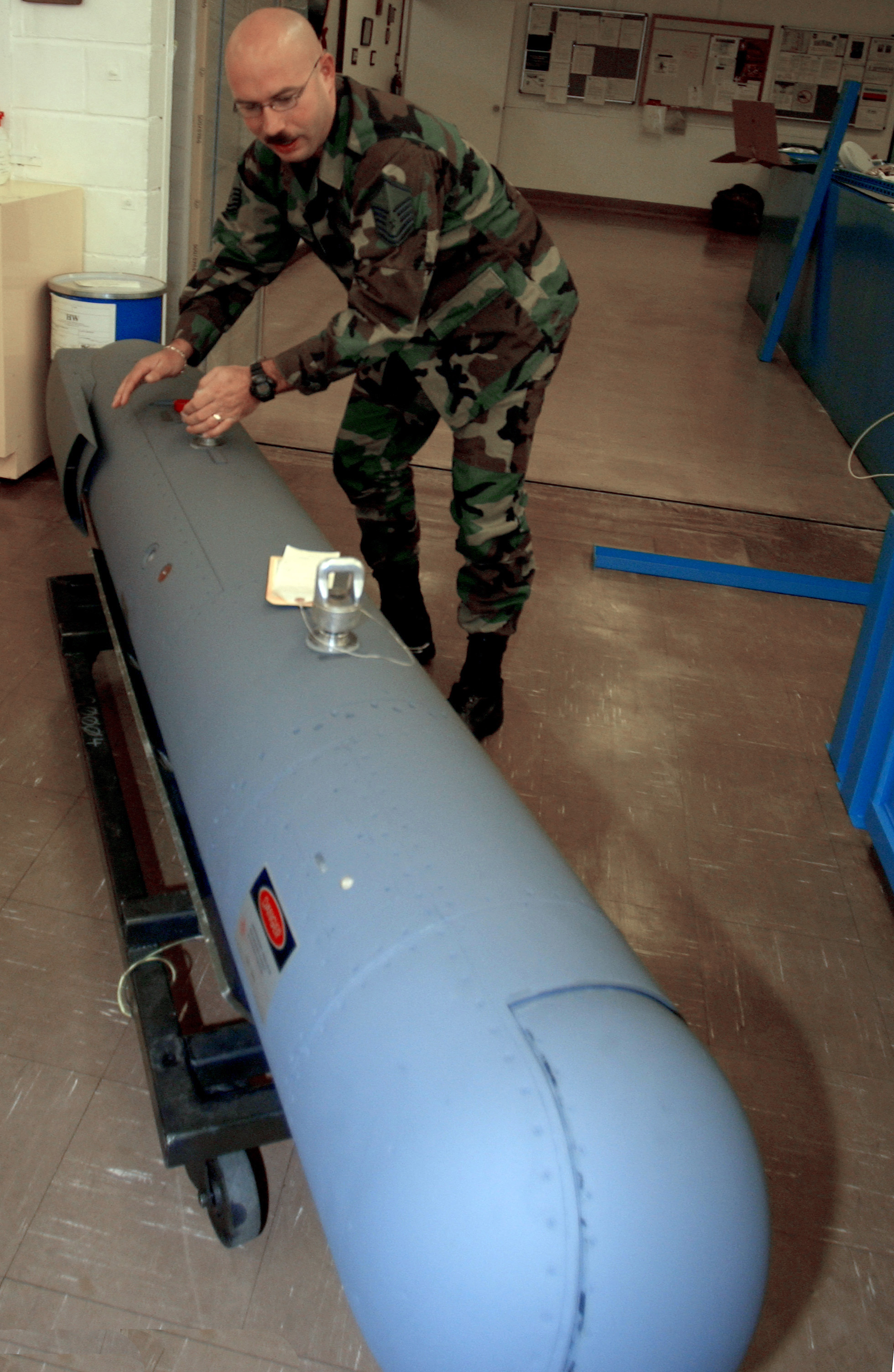 US Air Force (USAF) Master Sergeant (MSGT) Michael Montgomery, a section chief of the Low-Altitude Navigation and Targeting Infrared for Night (LANTIN) shop, at the 48th Component Maintenance Squadron (CMXS), Royal Air Force (RAF) Lakenheath, England (ENG) works with a newly painted target pod.